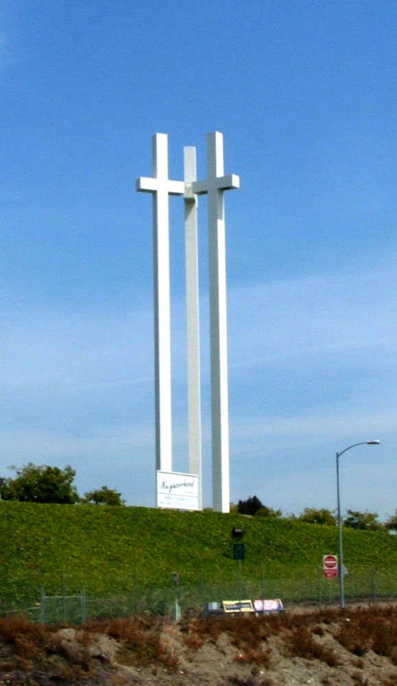 Taken and donated by User:Guinnog in April 2007